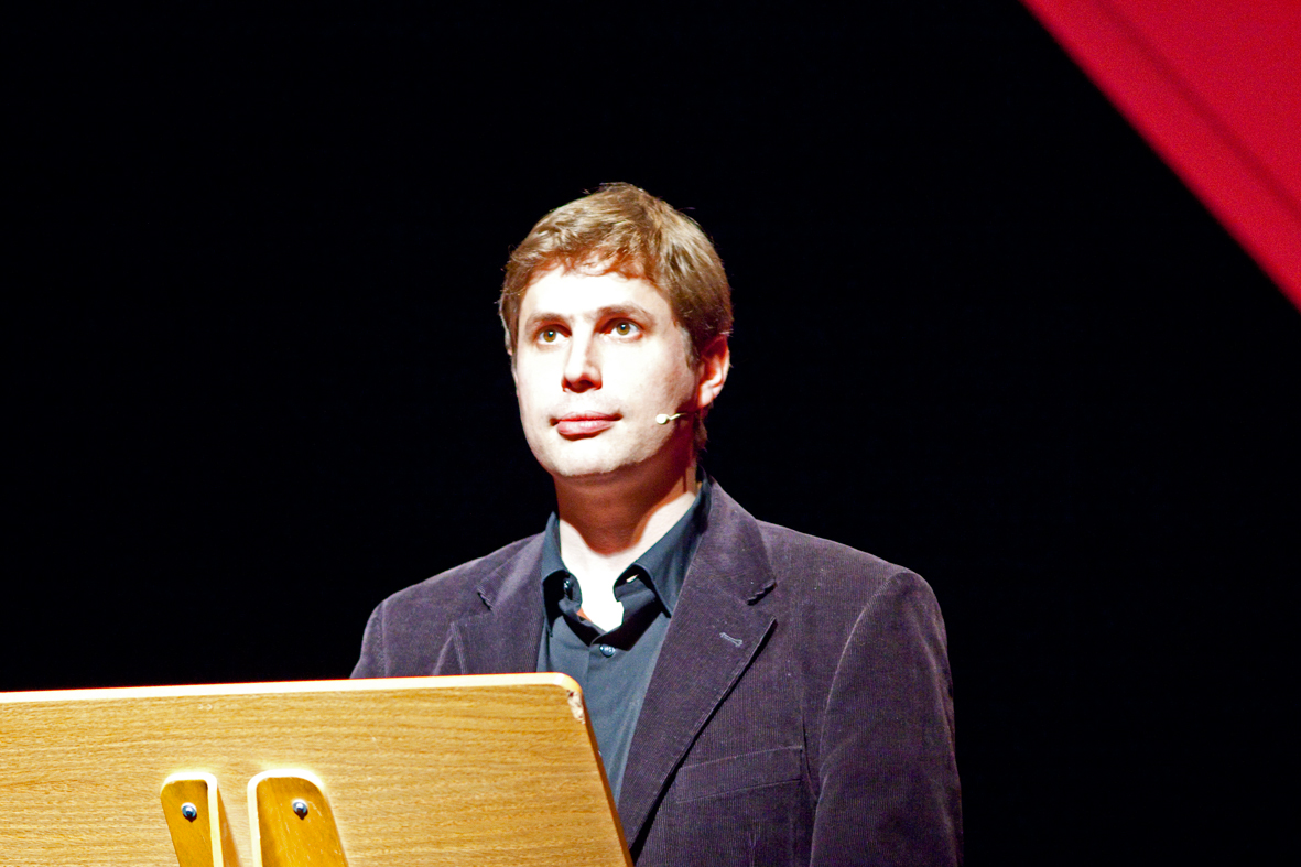 German writer Daniel Kehlmann at litcologne, 09-03-12